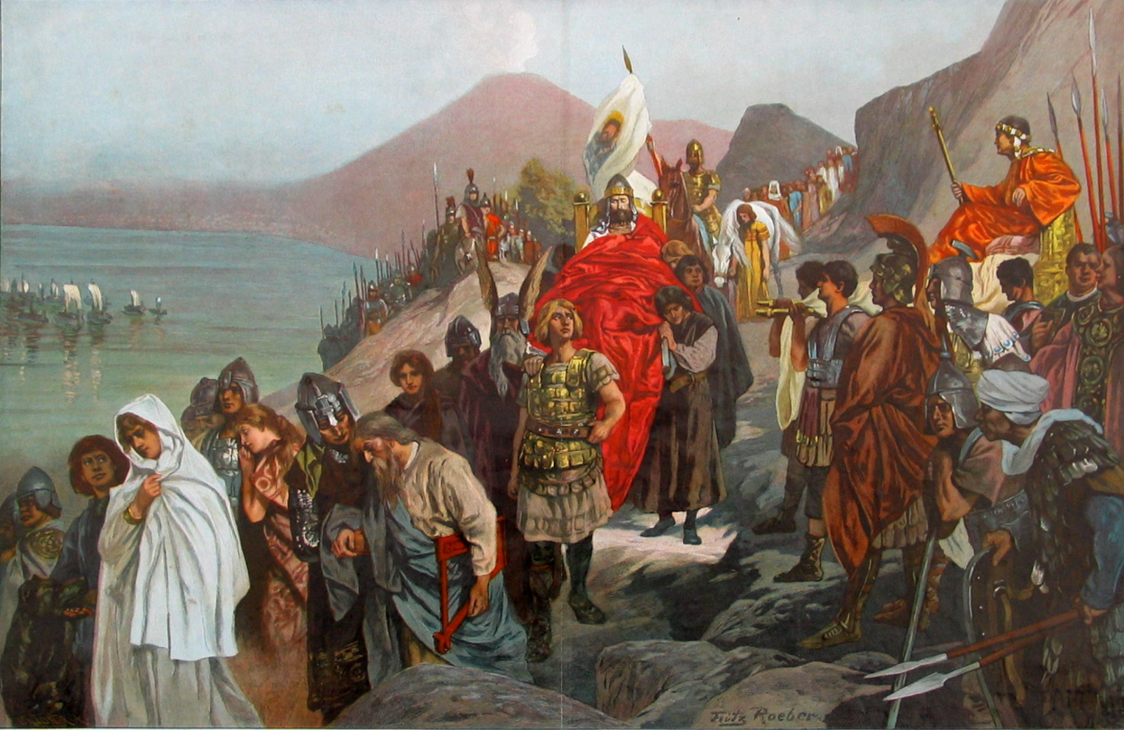 Battle on Vesuvius